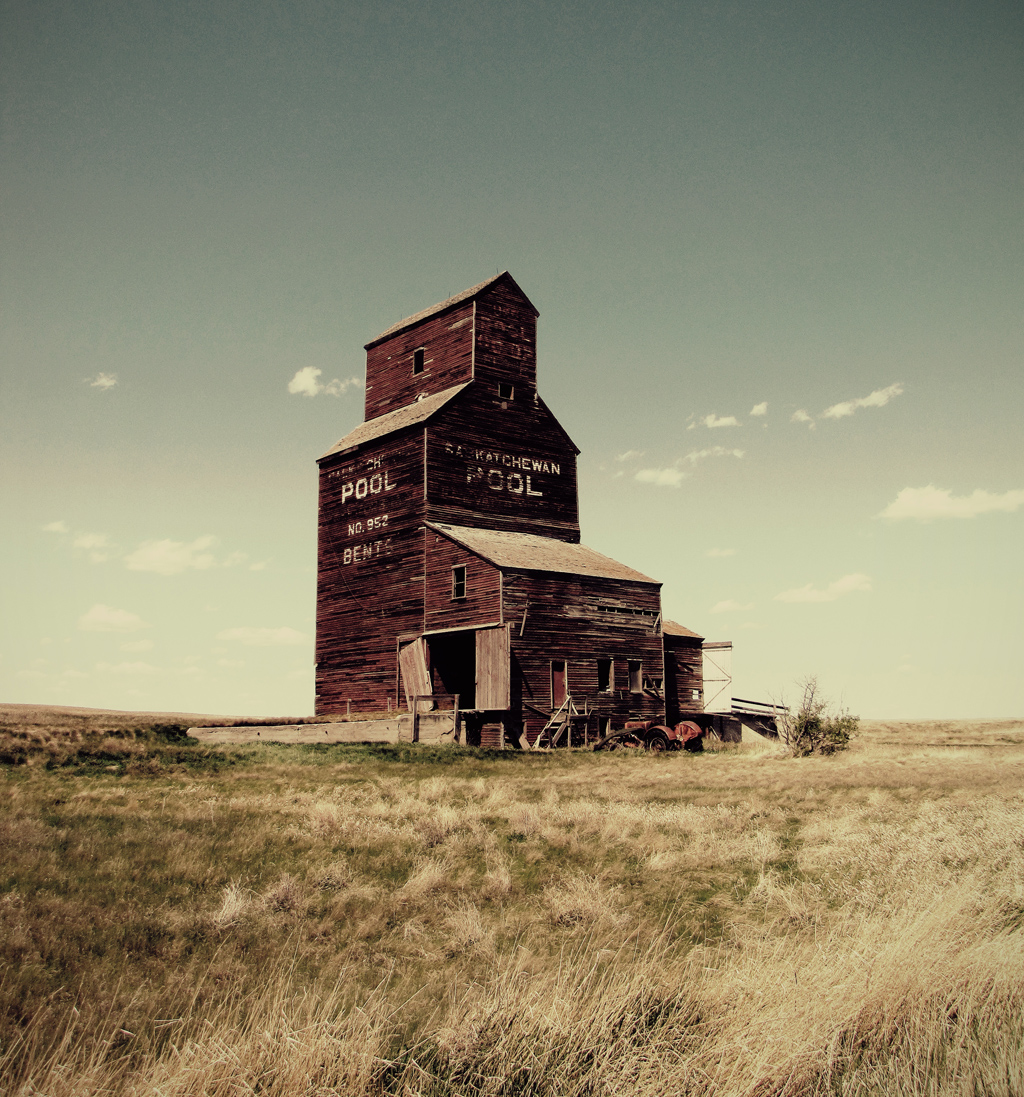 Abandoned grain elevator in the ghost town of Bents, Saskatchewan, Canada.